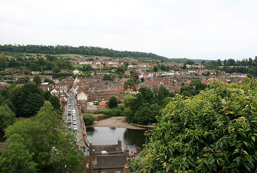 Taken by Nick Fraser in 2005. View over the River Severn at Bridgnorth.